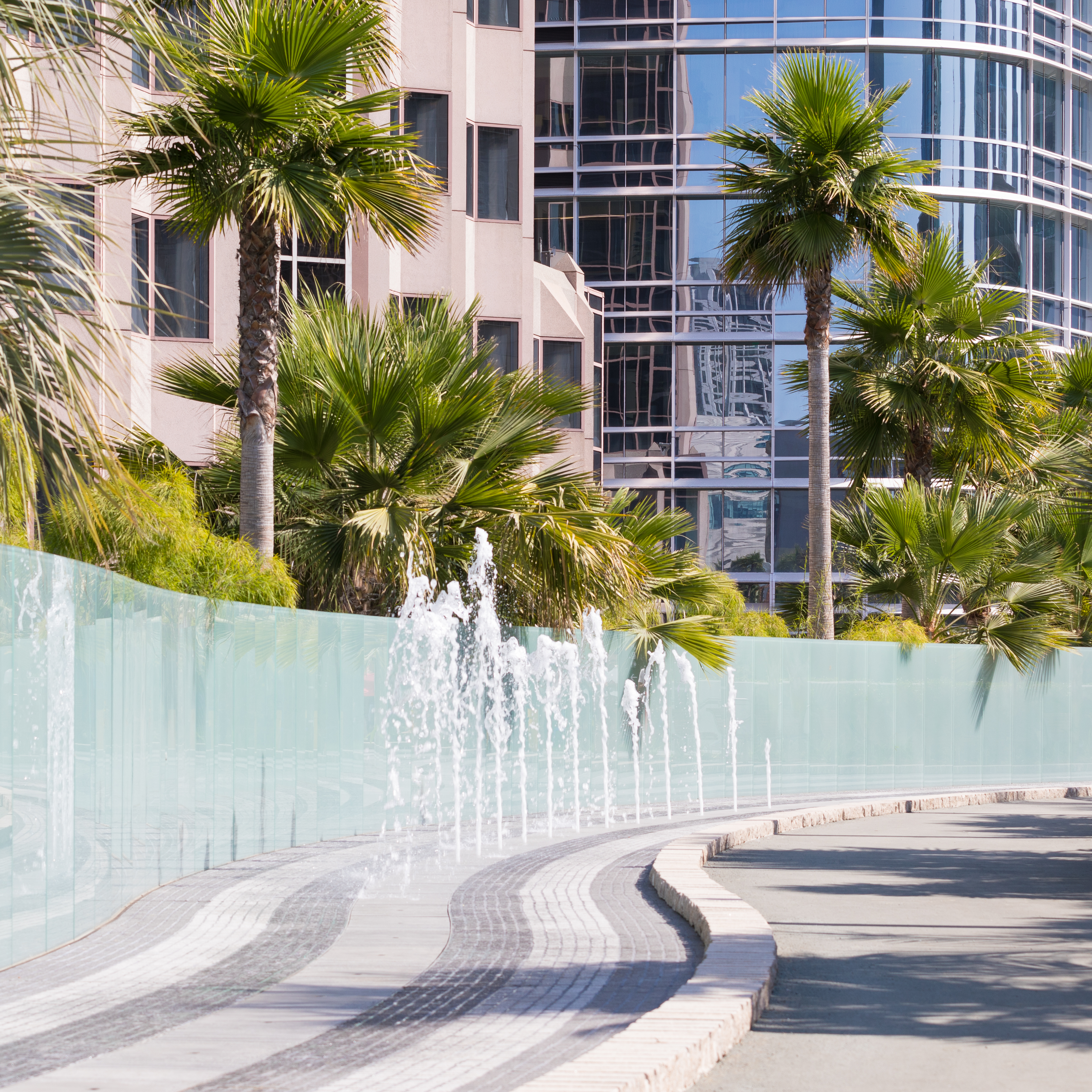 Transbay Transit Center in San Francisco, on the day after the opening: water jets on the rooftop of the transit station responding to the flow of buses on the deck below.